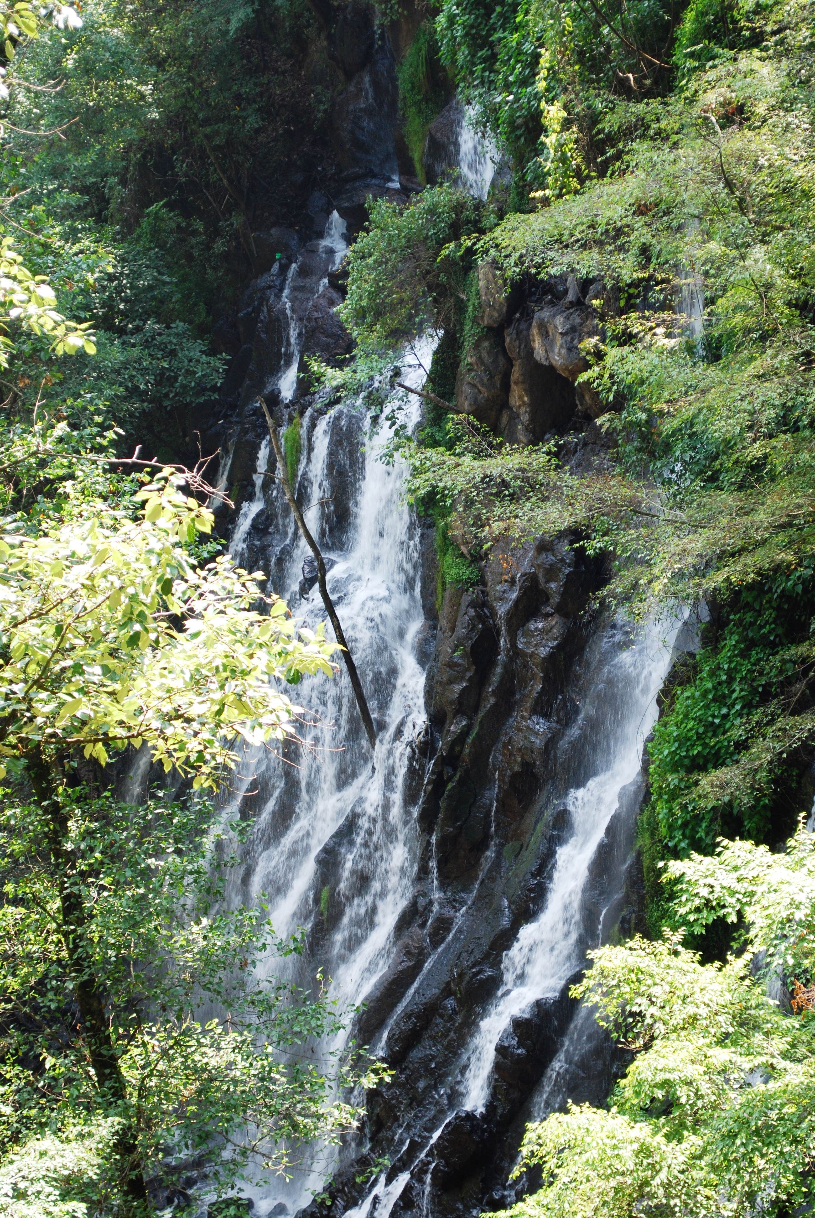 View of Velo de Novia Waterfall in Velo de Novia Park in Valle de Bravo, Mexico